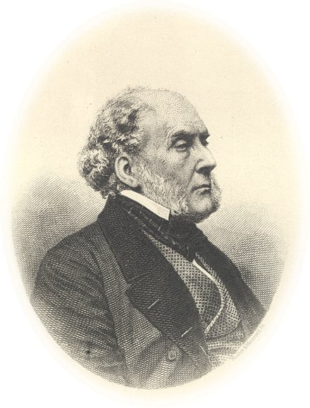 Sir Archibald Alison, 1st Baronet (1792-1867)